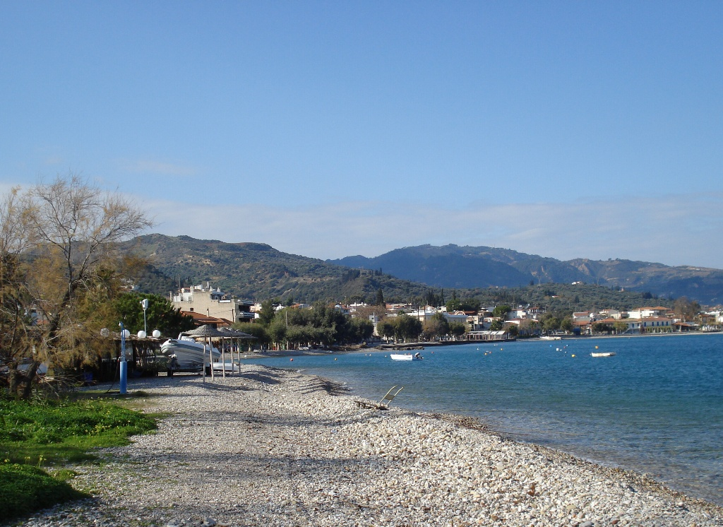 Selianitika village and beach, east side at the blue sea in Winter 2008. Prefecture of Achea, Region of Western Greece, Greece.